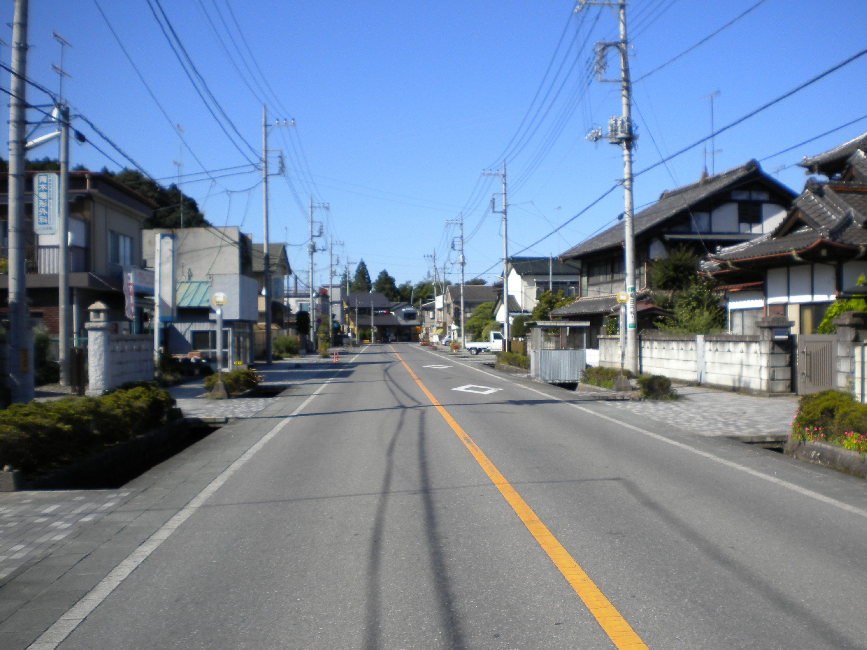 The Tochigi Prefectural Road Route 239 in Shirasawacho, Utsunomiya City